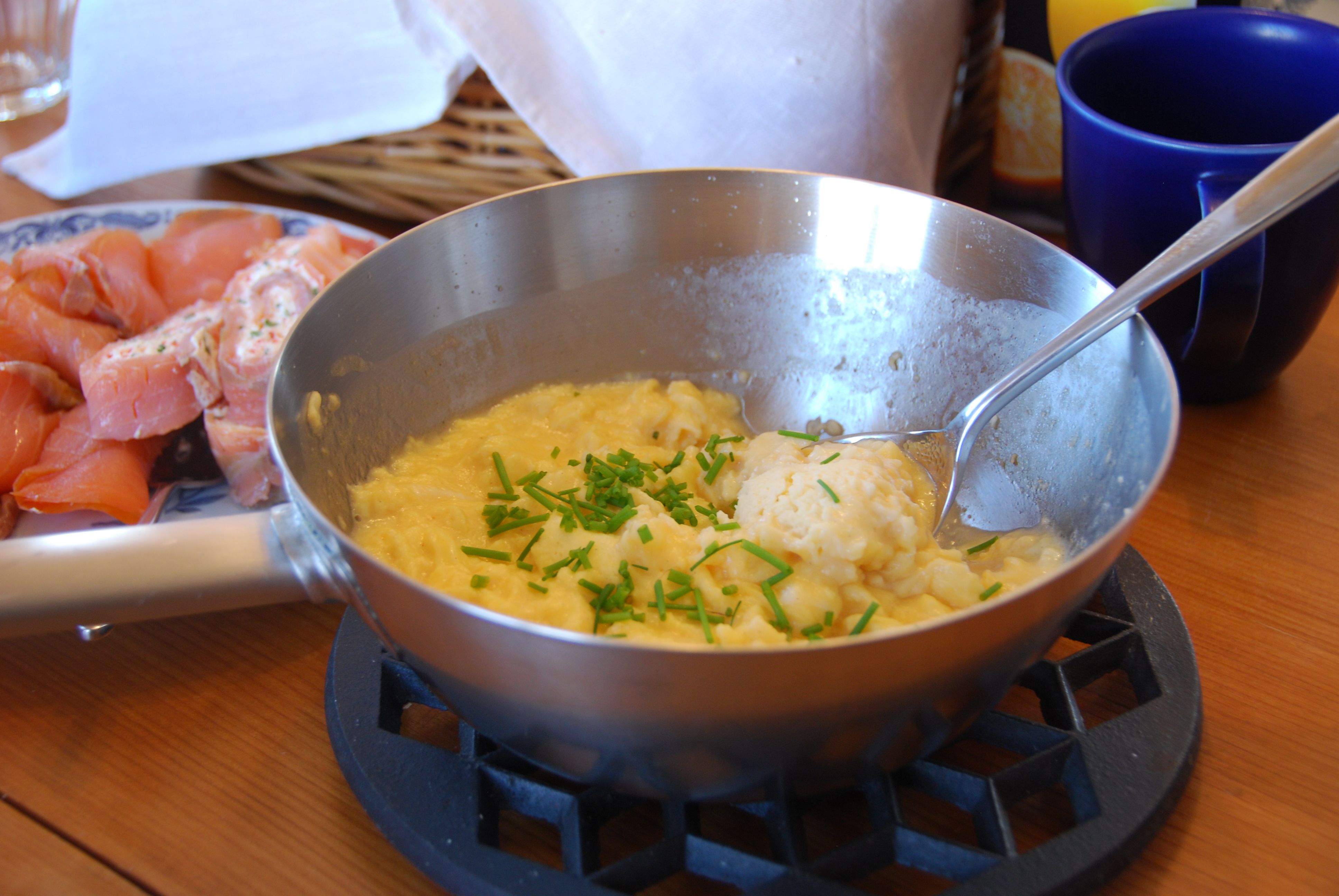 Egg royal